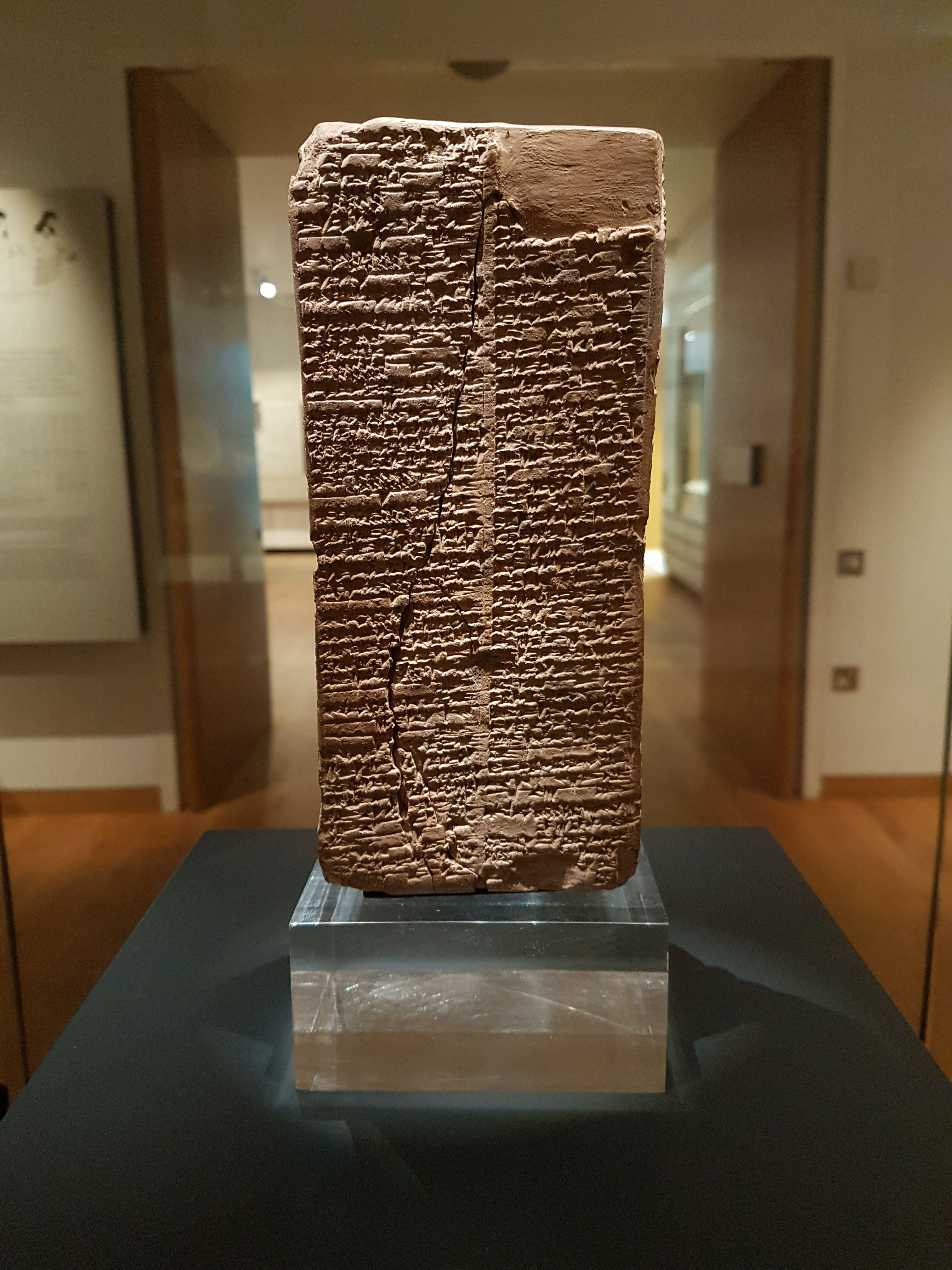 Cuneiform writing on a clay brick, written in the Sumerian language (during the time of the Akkadian empire), and listing all kings from the creation of kingship until 1800 BC when the list was created.